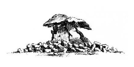 Chun Quoit - Morvah - Cornwall - UK